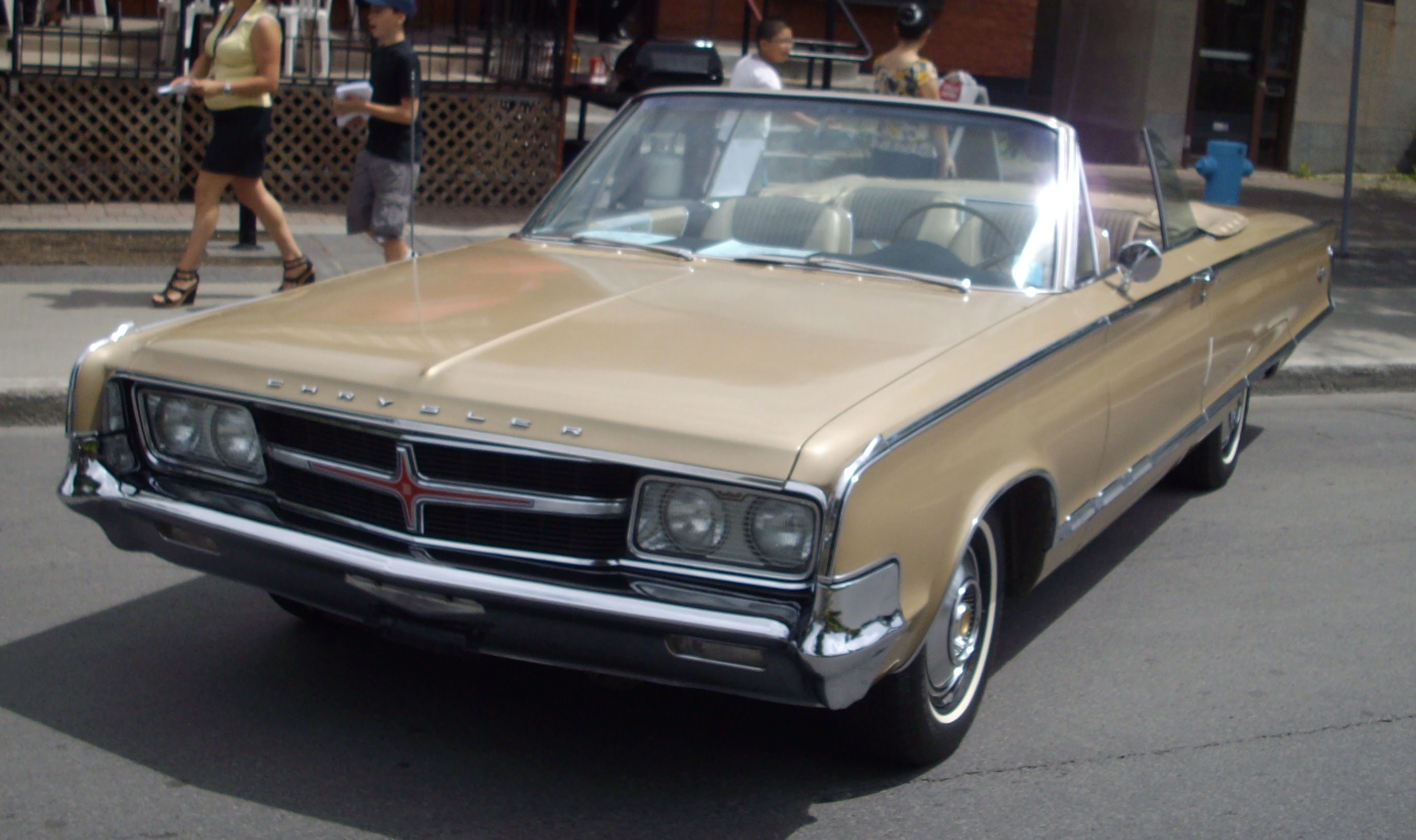 1965 Chrysler 300 Non-Letter photographed in Montréal, Quebec, Canada at Destination Décarie 2012.